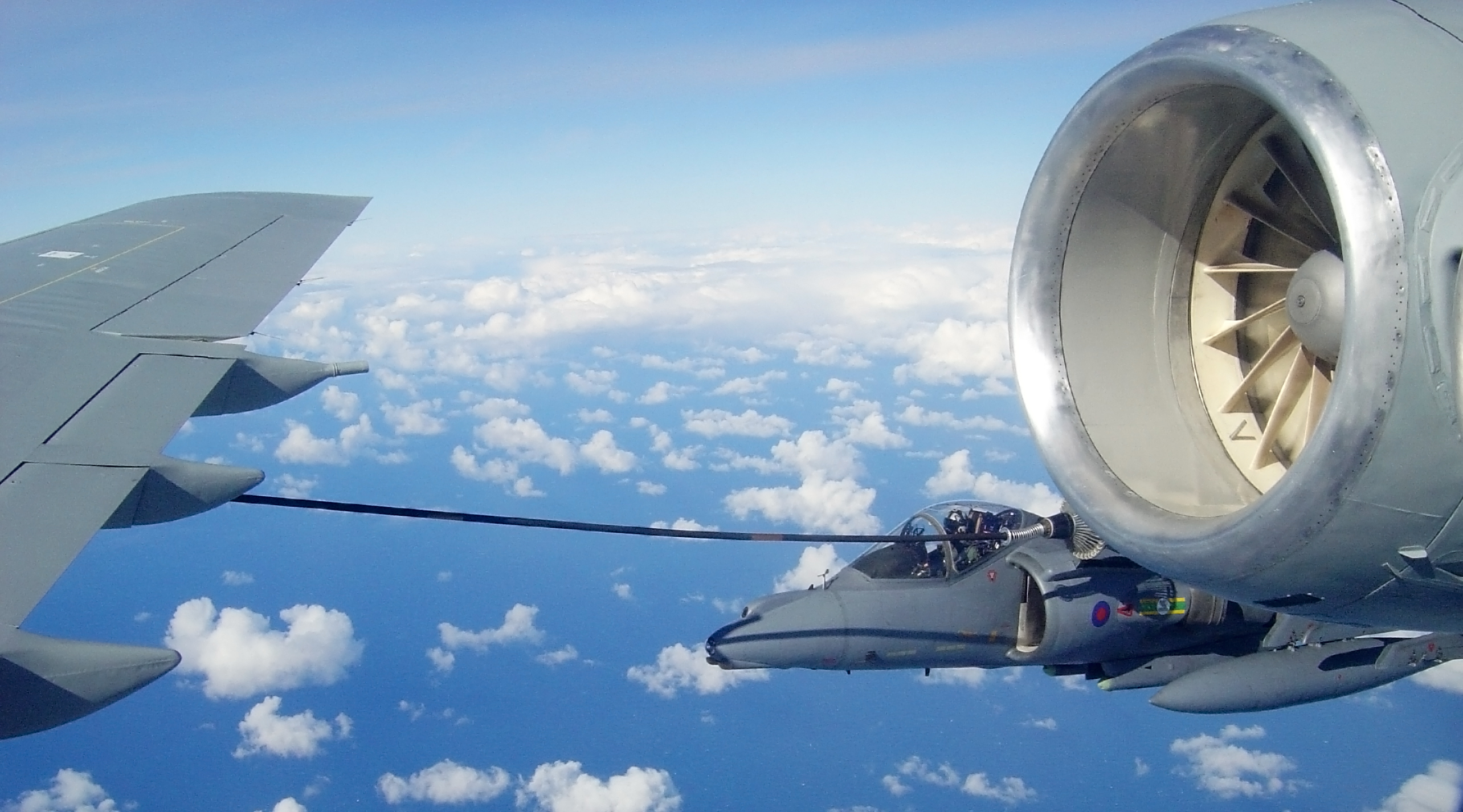 British Aerospace Harrier in aerial refuelling exercise